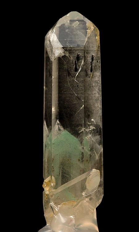 Quartz, Muscovite (Var.: Fuchsite) Locality: Mt.Masomeloka, Mananjary emerald District, Vatovavy-Fitovinany Region, Fianarantsoa Province, Madagascar (Locality at ) Size: 5.5 x 1.9 x 1.5 cm. A rare, fine quartz specimen from Madagascar. The water-clear quartz crystal encloses a small quartz crystal that is coated with blue-green fuchsite, making for a striking phantom. Fuchsite is the greenish variety of muscovite, high in chromium and is relatively rare worldwide. There is even fuchsite in the small quartz crystal.